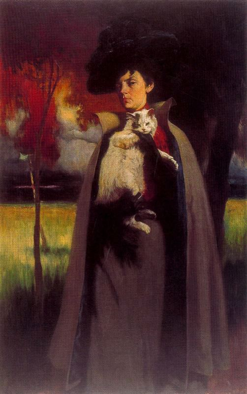 Photograph of Portrait of Marya Anastasievna Chroustchva, 1900. Oil on linen, by Dmitry Kardovsky. Мария Афанасьевна Хрущева Maybe it is M(aria) .A. Khrusheva who was teacher of Lev Tolstoy's children and than become a nun in Optina pustin as sister Anatolia[1][2]